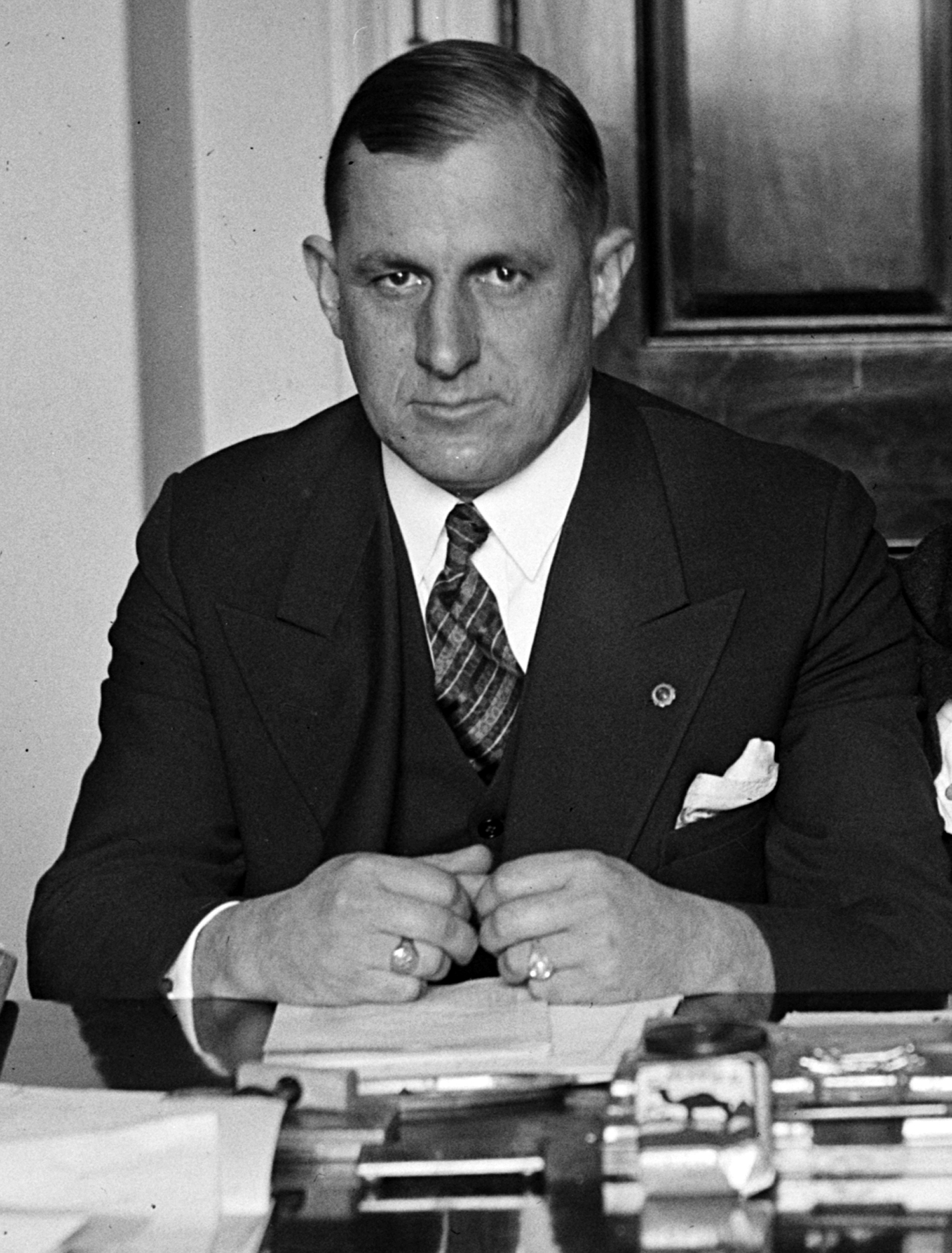 Stewart H. Appleby, US Representative from New Jersey